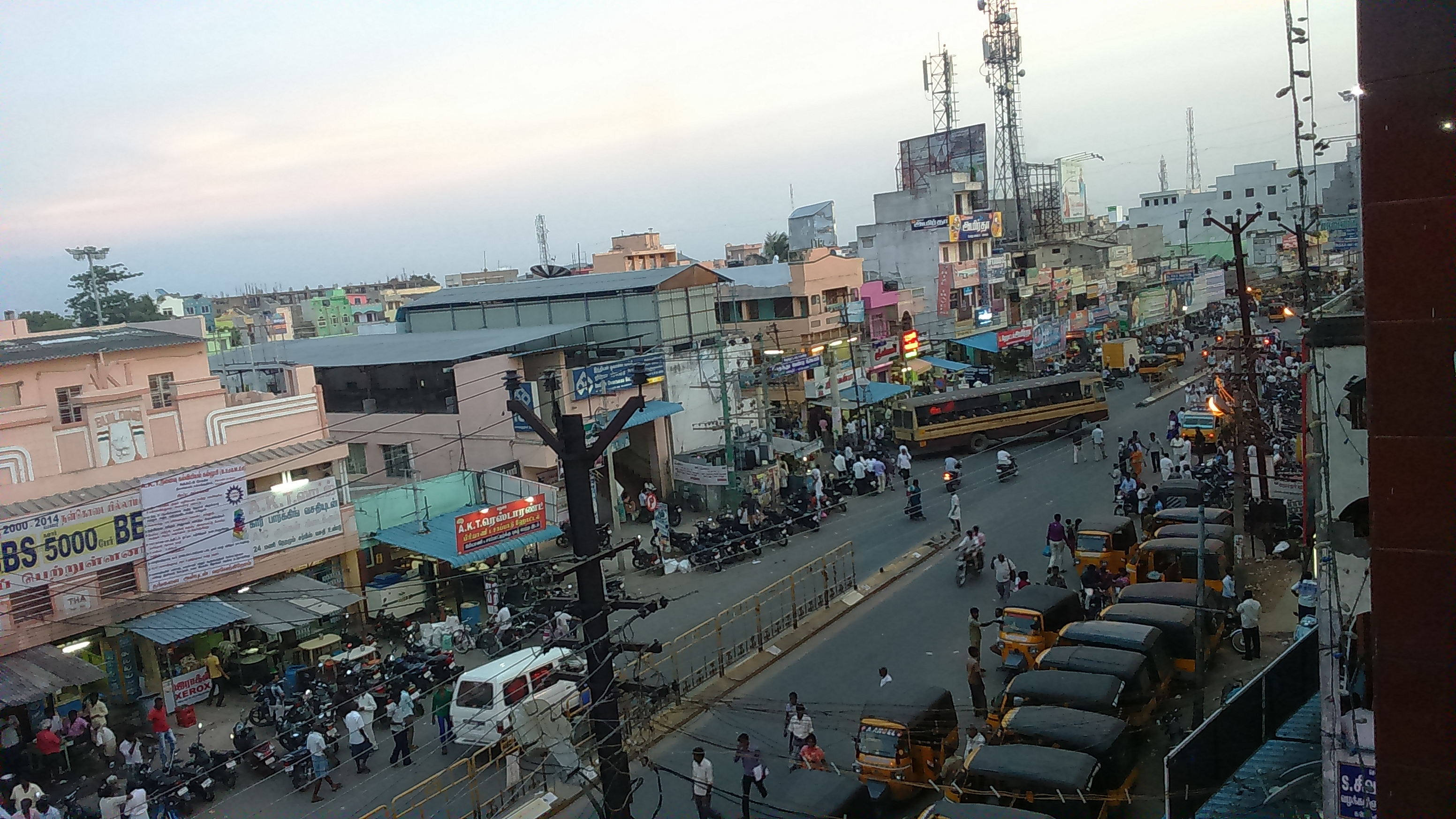 kacheri saalai